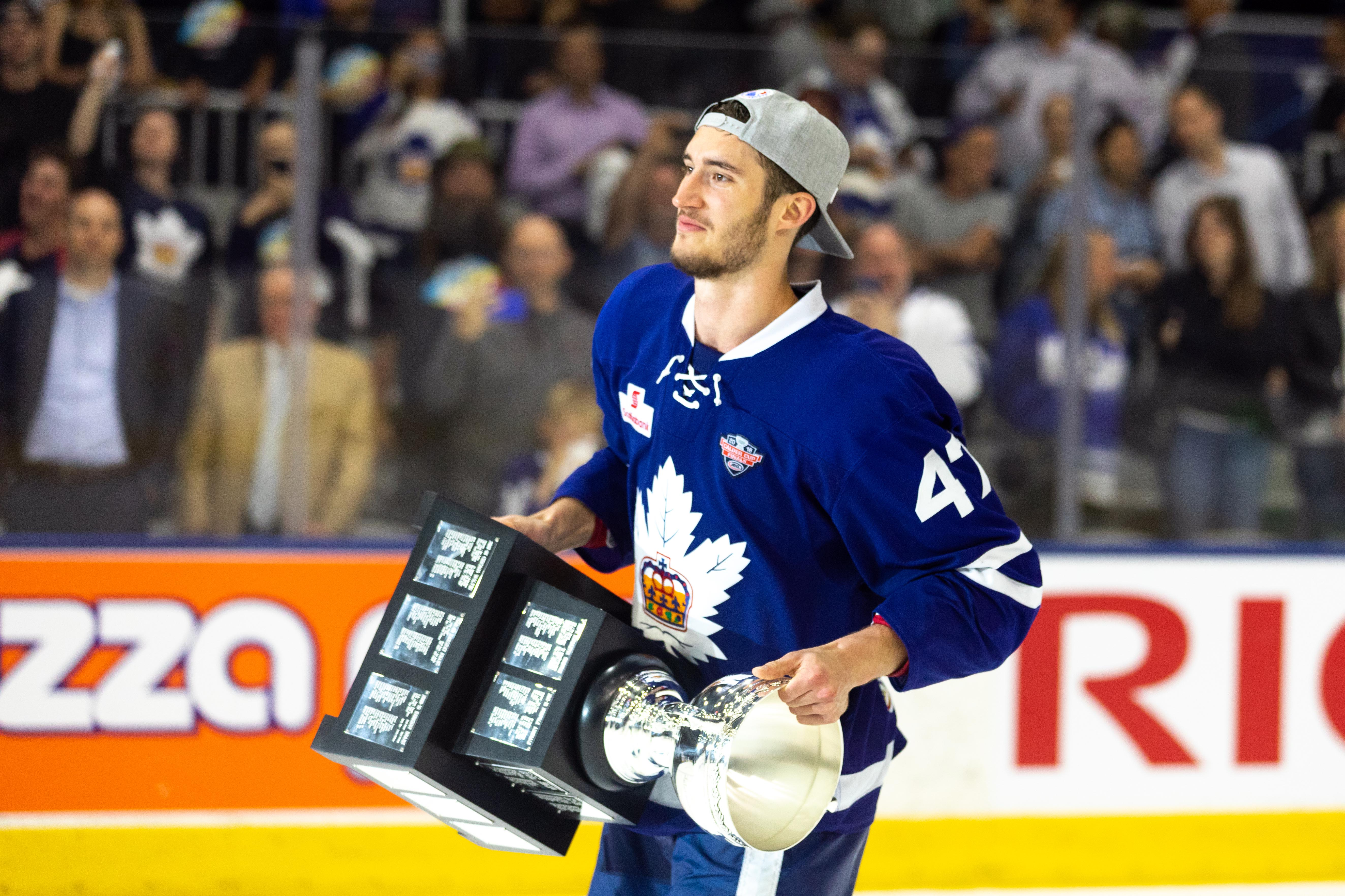 Photo: Thomas Skrlj/AHL